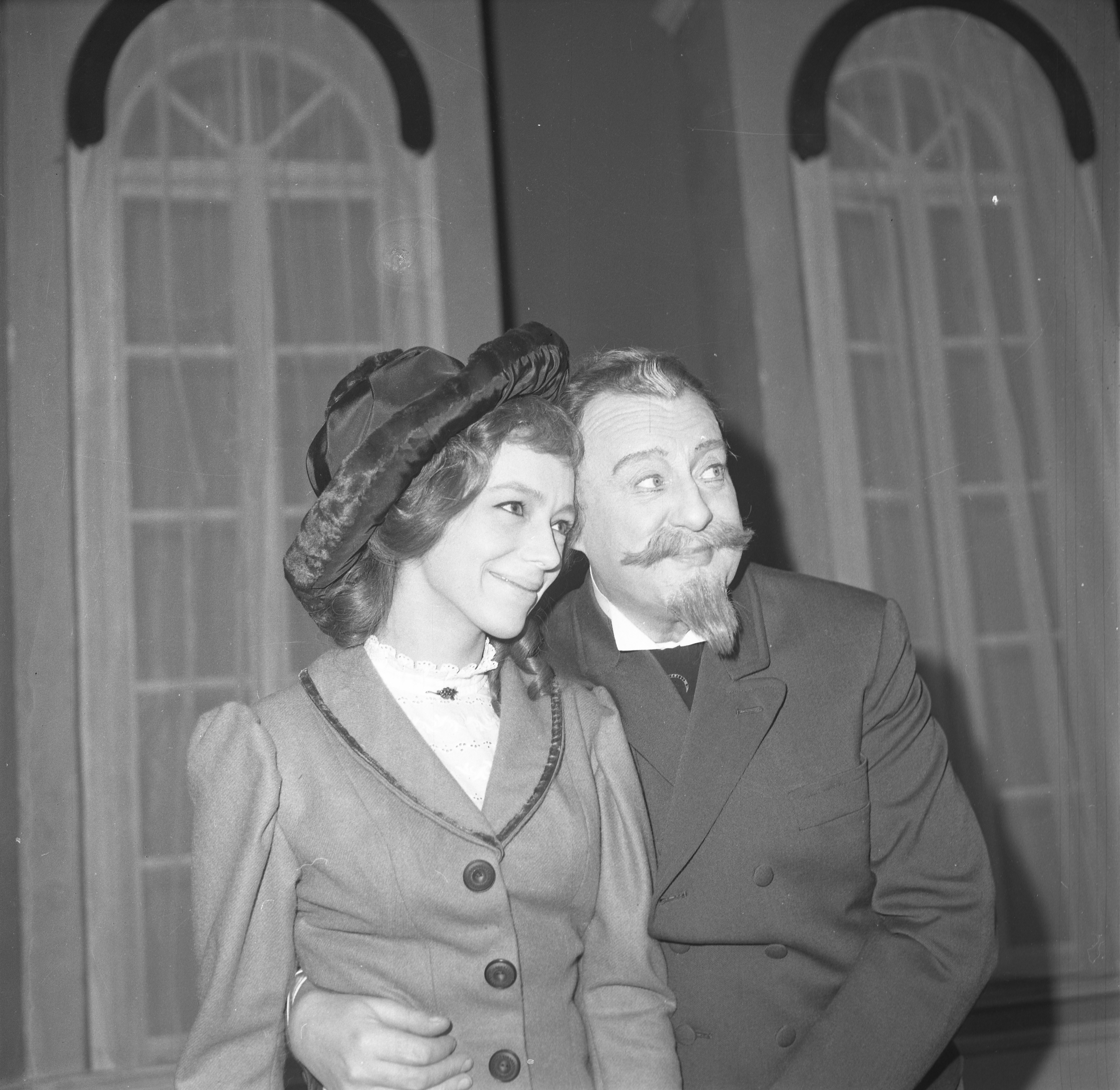 Format: Negativ 120 film Dato / Date: 1968 Fotograf / Photographer: Eirik Sundvor (1902 - 1992) Sted / Place: Bergen, Hordaland Wikipedia: Svend Soot von Düring (1915 - 1969) Wikipedia: Katja Medbøe (1945 - 1996) Wikipedia: Kirsebærhagen (Anton Tsjekhov 1904) Eier / Owner Institution: Trondheim byarkiv, The Municipal Archives of Trondheim Arkivreferanse / Archive reference: Tor.H43.Bxx.F14634b